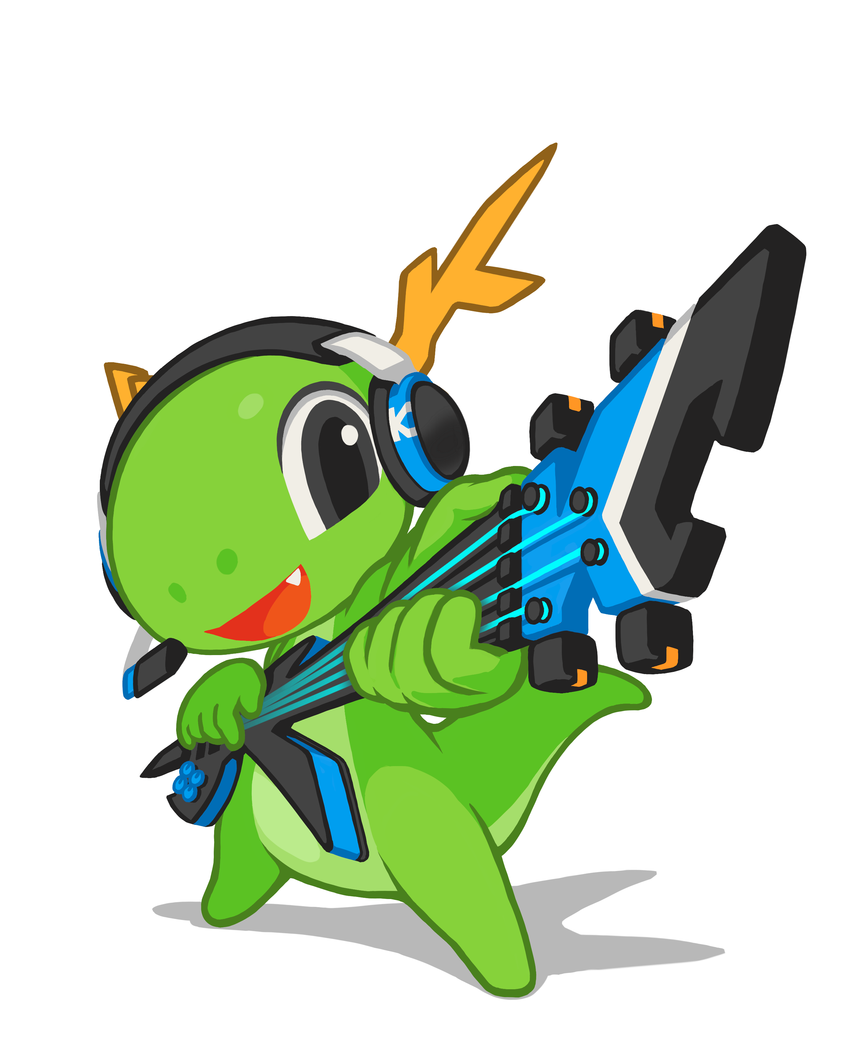 KDE mascot Konqi for music and multimedia applications.